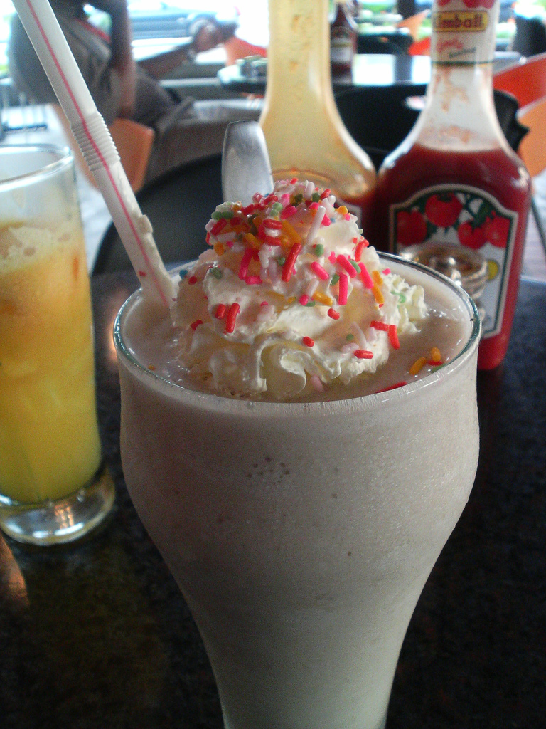 There is a new Hangout location in Cyberjaya. Next to OCBC Call Center. Check it out. COOL Place... don't know about the food but the price... okie la... P:S- Don't try to milkshake...